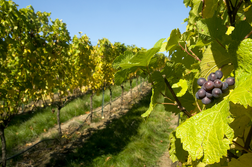 Vineyards west of Salem, Oregon. Photo credit: ODOT photographer Gary Weber